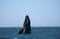 WL268. A critically endangered Western North Pacific gray whale breaching off the coast of Sakhalin Island. Location: Sakhalin Location: Sakhalin.